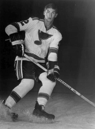 Photo of George Morrison as a member of the St. Louis Blues.